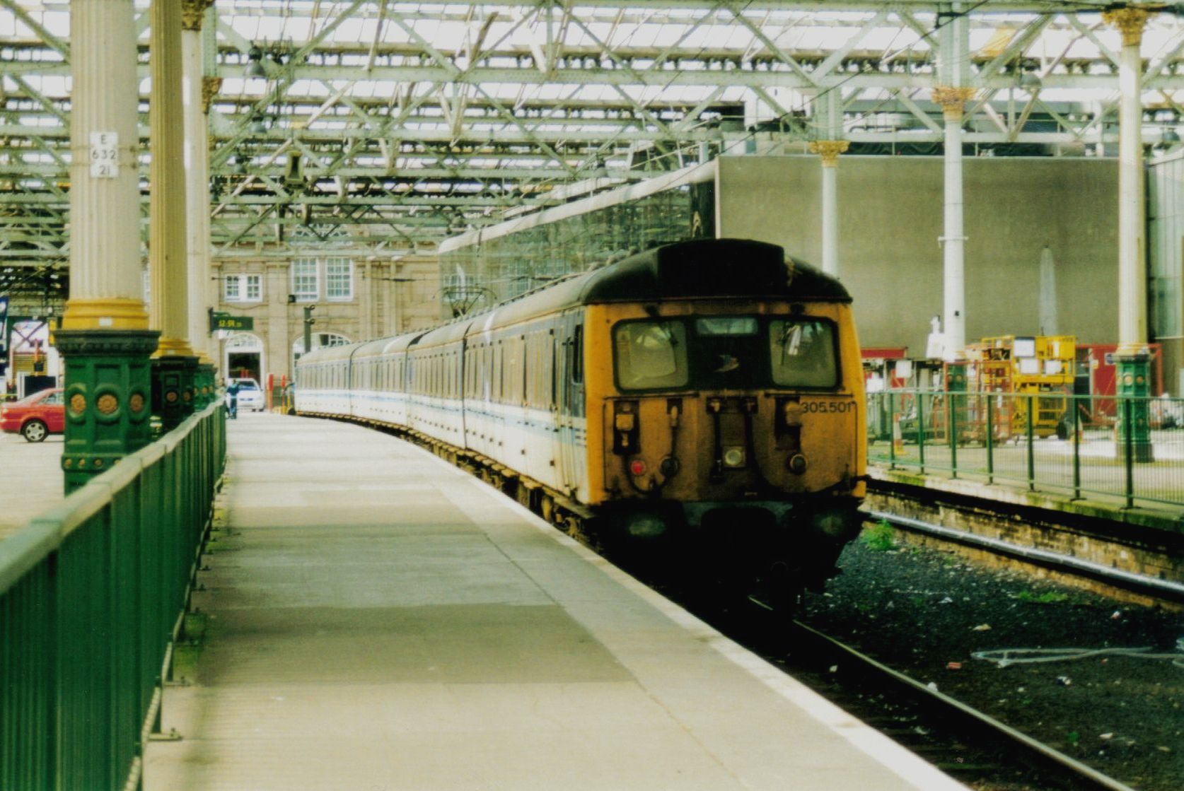 Class 305 unit 305501 waits at Edinburgh Waverly before operating a Scotrail service to North Berwick in September 2001, shortly before withdrawal.